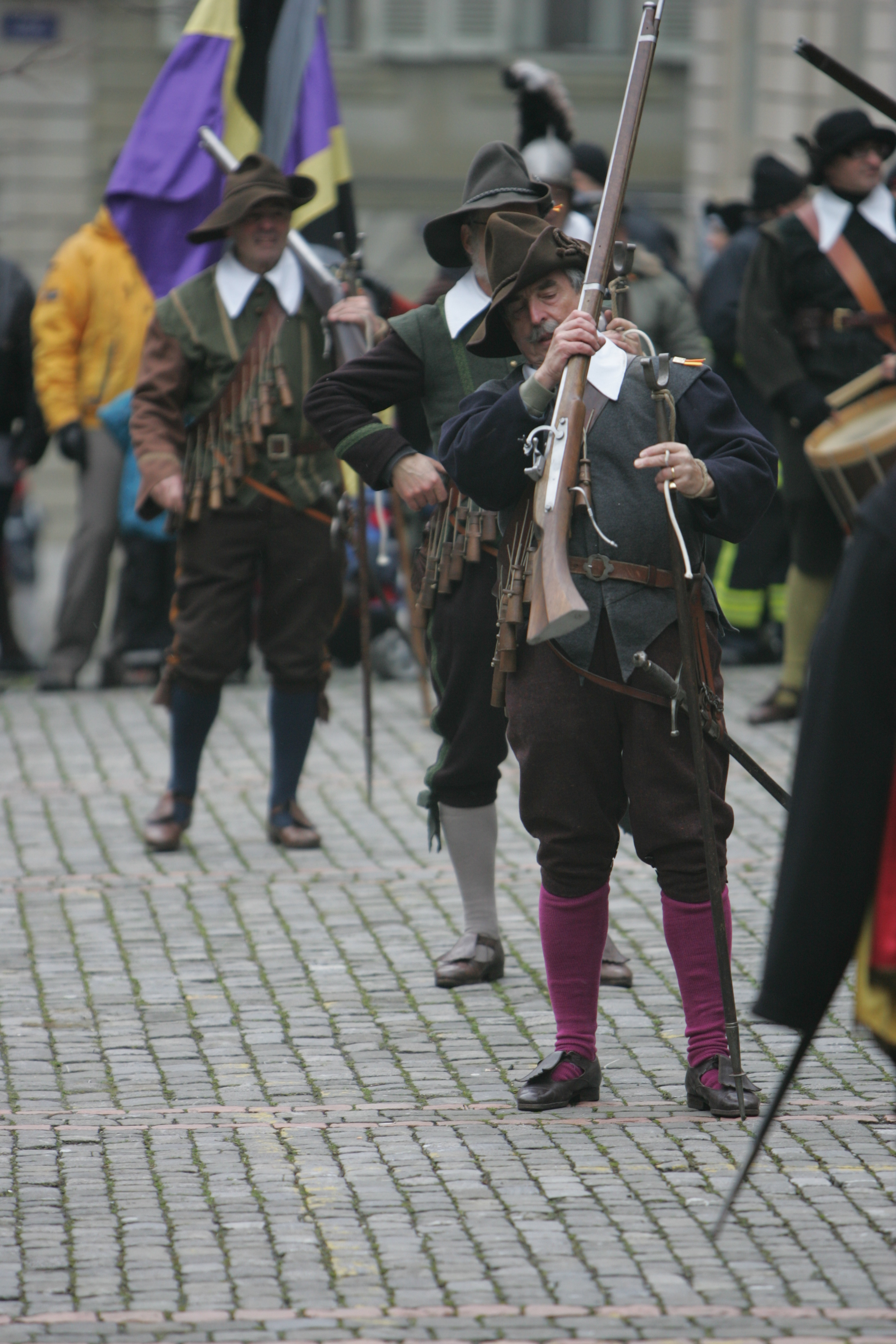 Arquebus firing during the Geneva Escalade of 2009